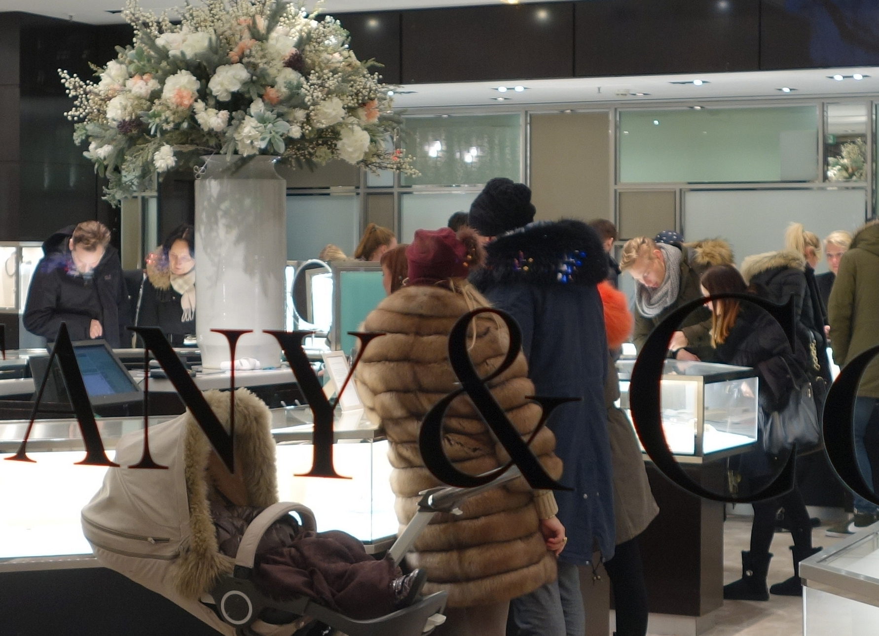 Sable coat at Tiffanys in Düsseldorf, Königsallee, December 2016.